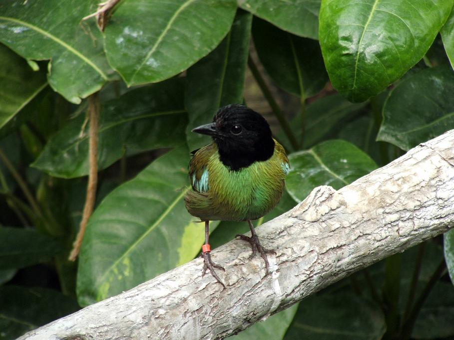 Hooded Pitta at Columbus Zoo and Aquarium, USA.